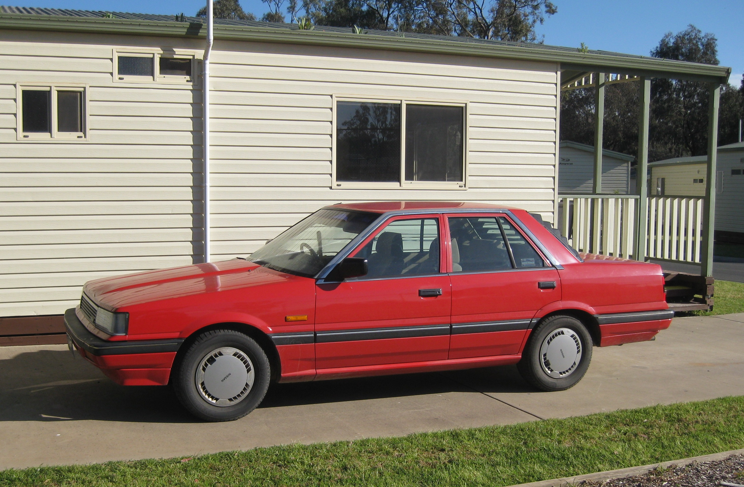 1986–1988 Nissan Pintara (R31) GX sedan. Photographed in Australia.